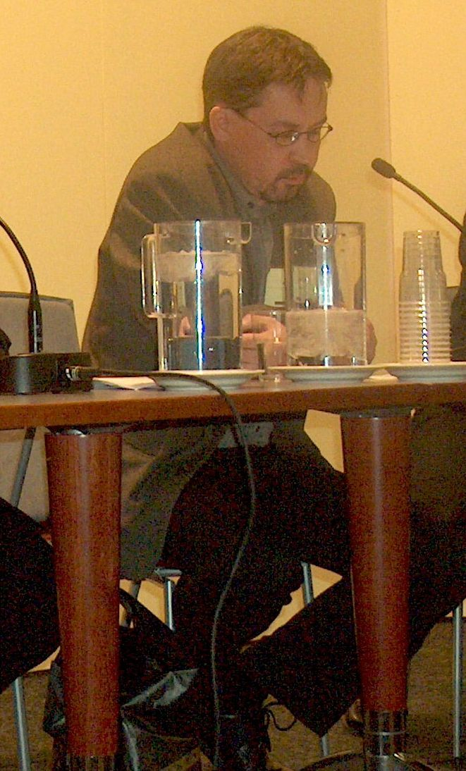 Marko Leino, Finnish crime writer, at the Helsinki Book Fair in 2004